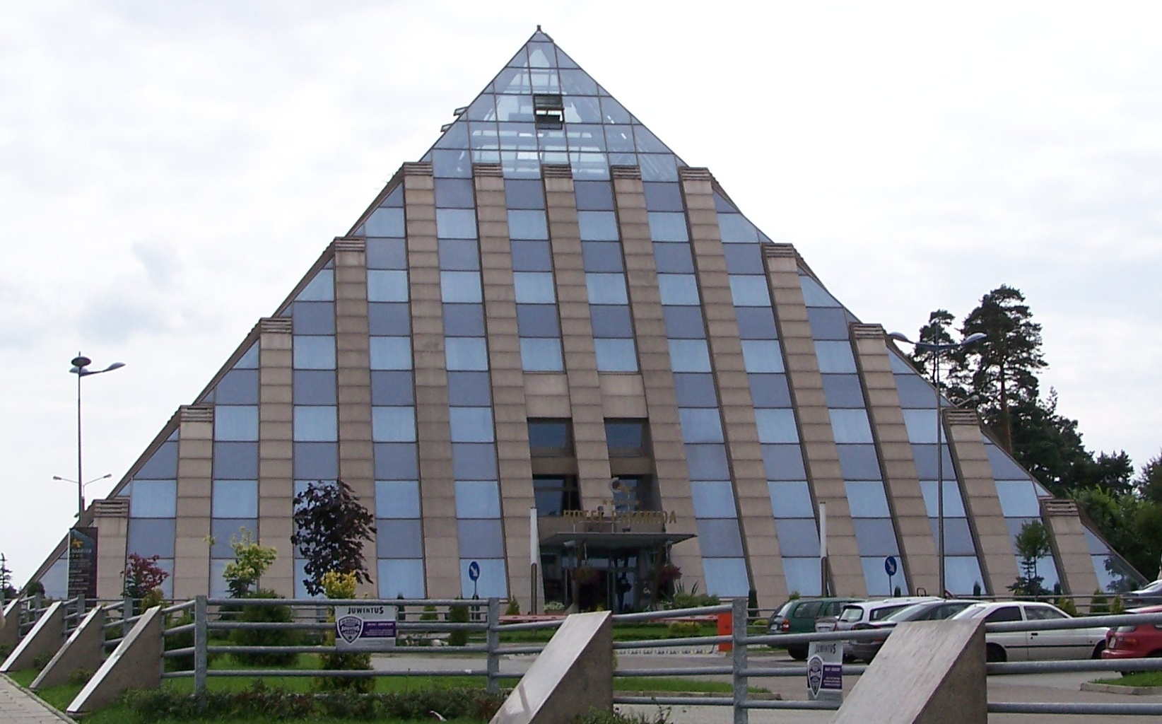 Building of Piramida Hotel in Tychy